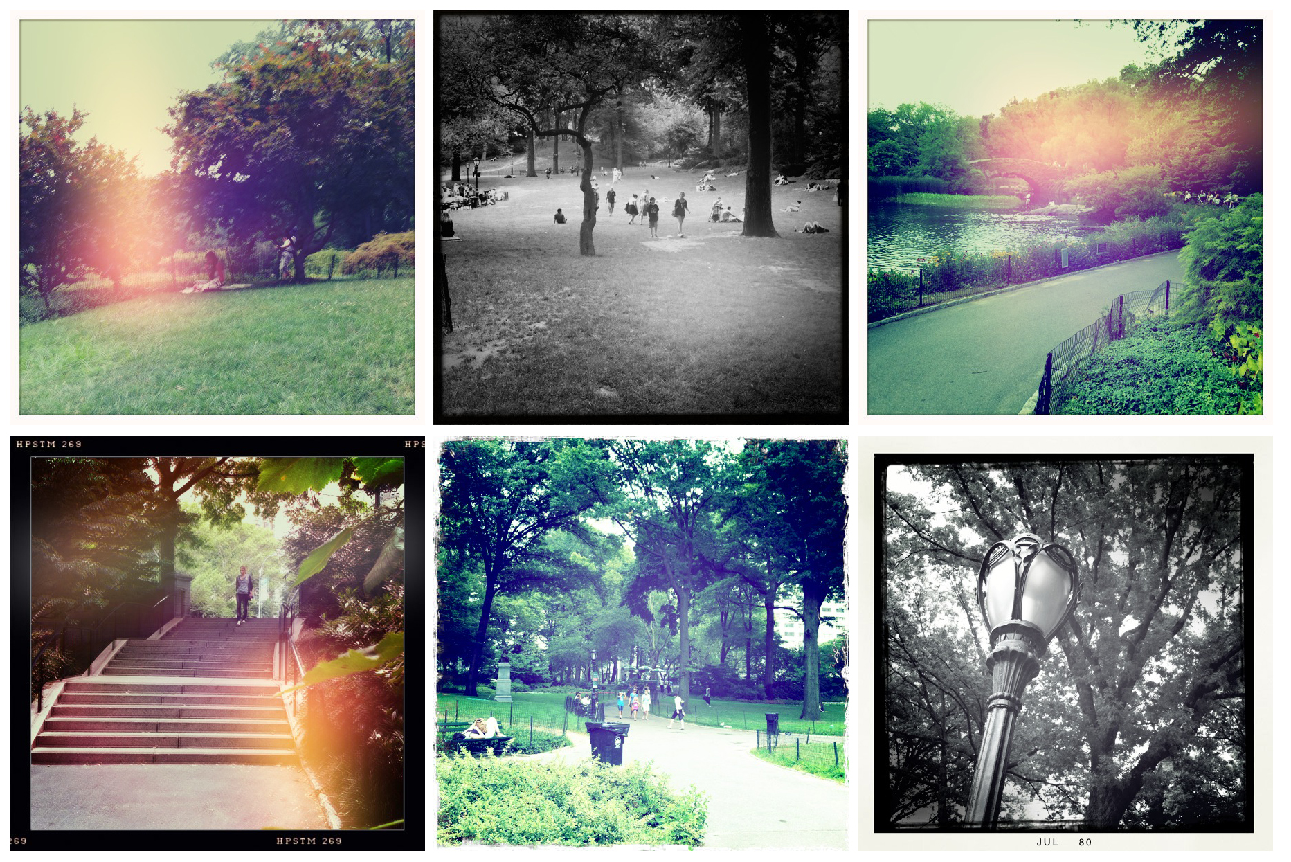 I snapped a few pix on my walk home from work using Hipstamatic, a very stylized iPhone app. Check out Hipstamatic...